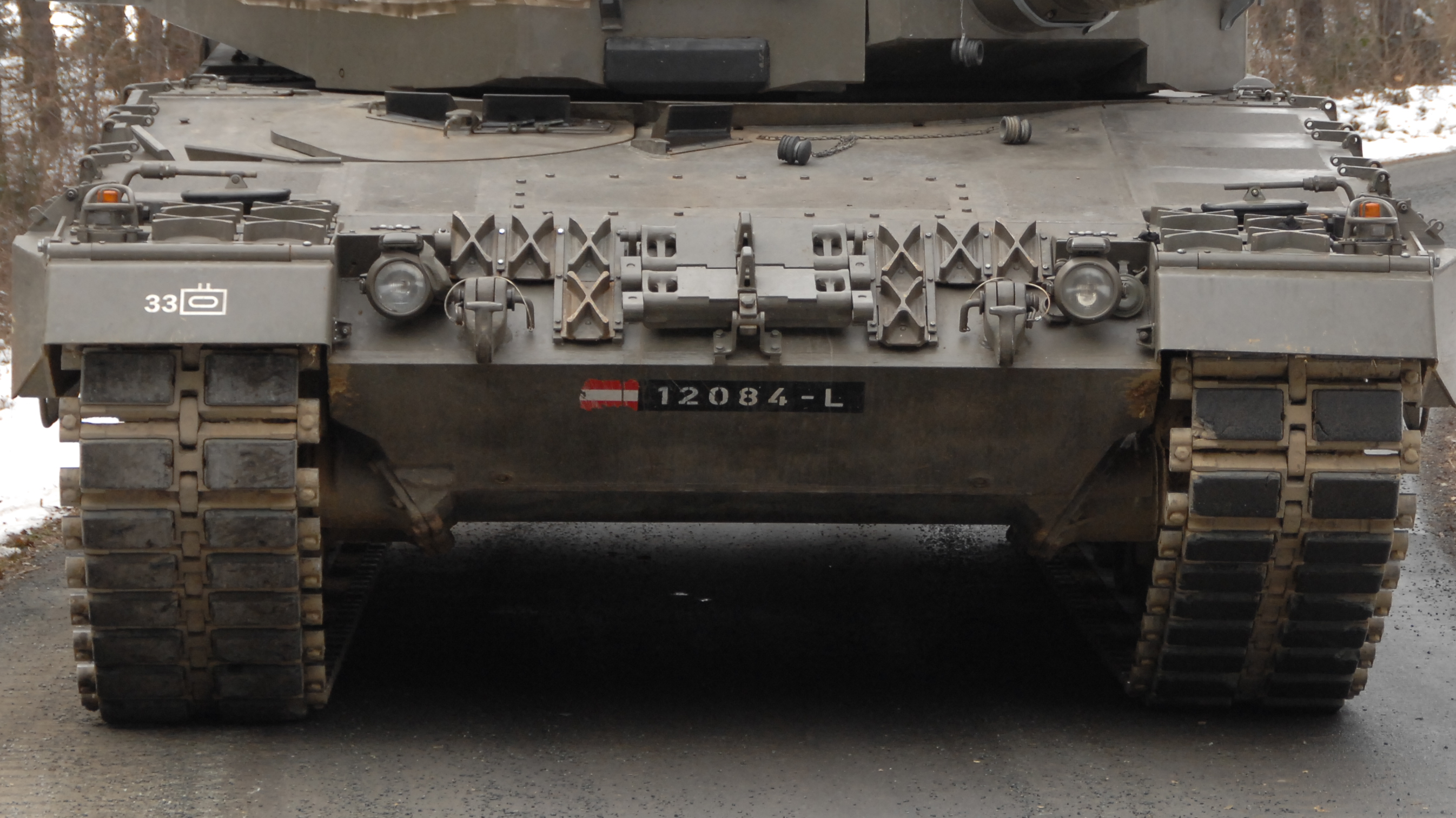 Leopard 2 in Austrian service